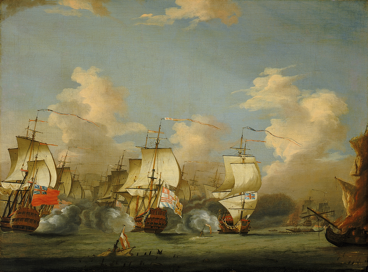 The Battle of Cape Passaro, 11 August 1718. A painting showing an action during the war with Spain, 1718-20. The Spanish flagship ‘Real San Felipe’ in the centre, flanked on either side by probably British ‘Superbe’ and ‘Kent’. See RMG website for reference.